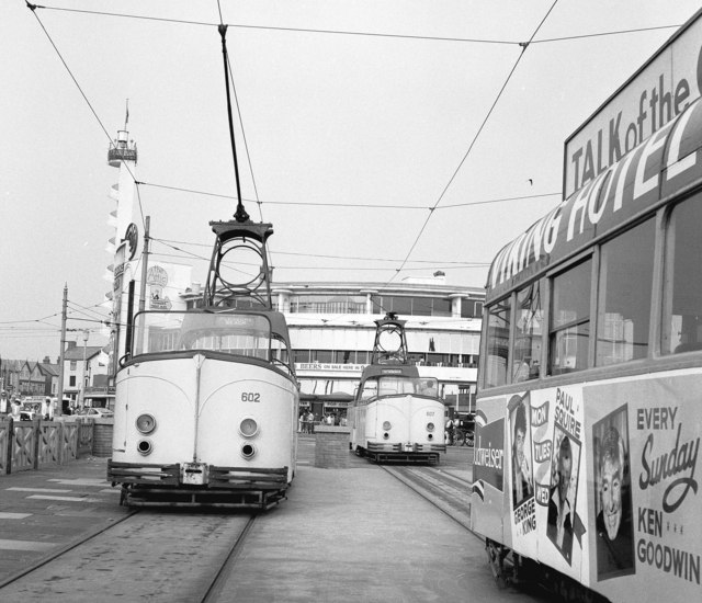 Trams at Blackpool Pleasure Beach The two 'Boat' cars are Nos. 602 and 607.